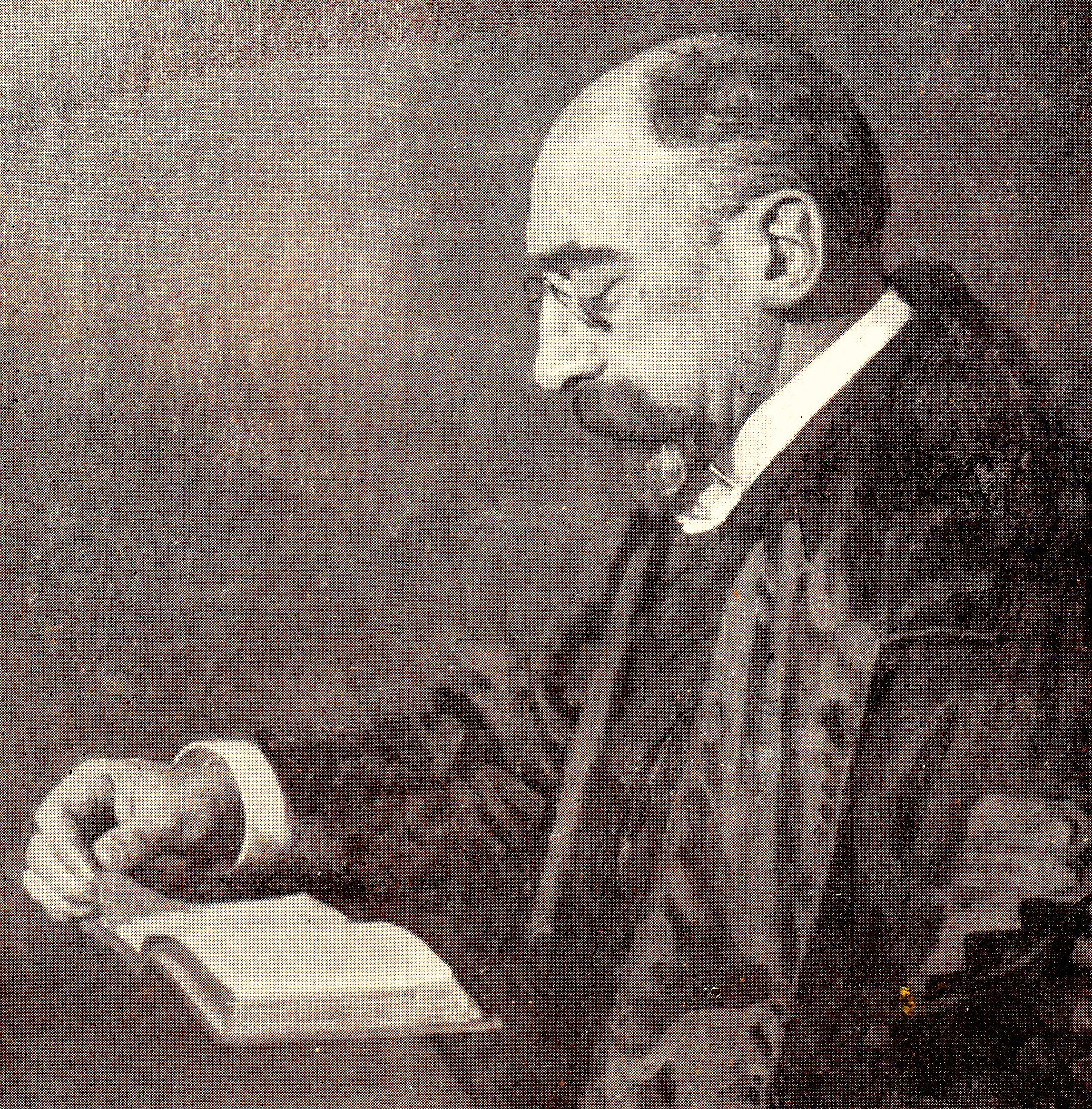 Professor K.H.Th. Bussemaker